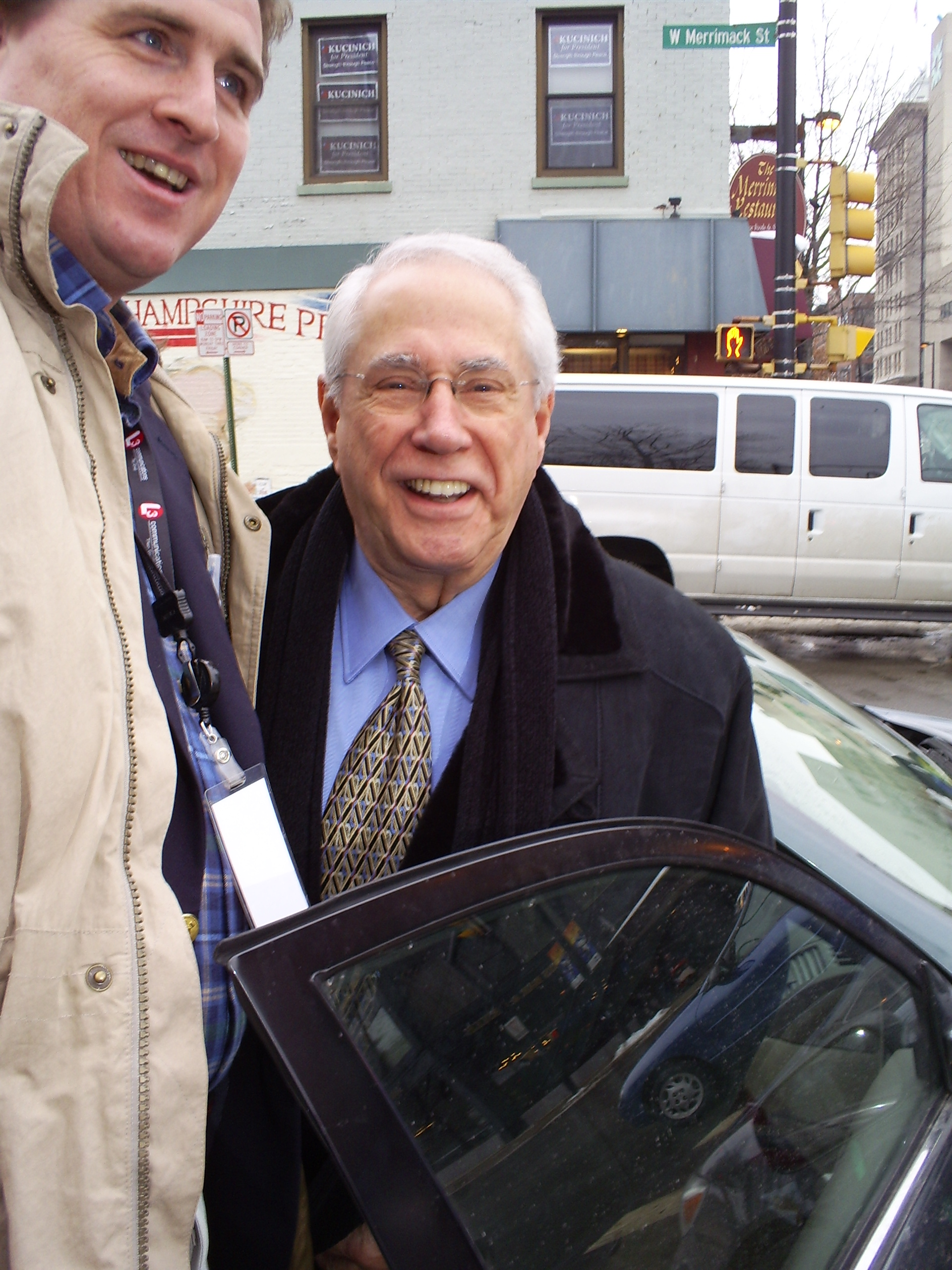 Photo by Craig Michaud.This was taken during the 2008 New Hampshire Primary in Manchester